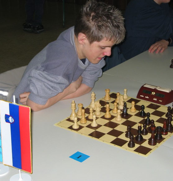 Grandmaster Luka Lenič, Slovenia. Foto AndrejJ 2003.